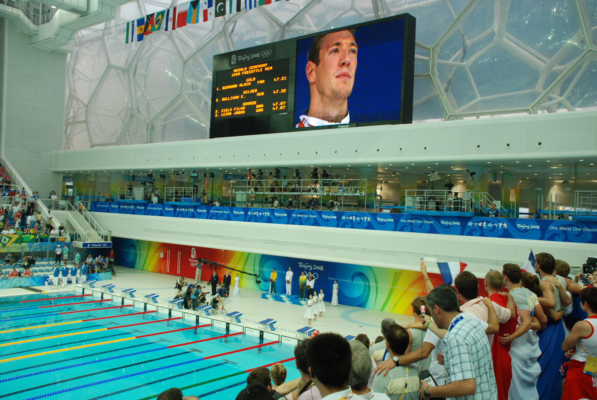 Alain Bernard on the podium of the 100 meters, august 14th 2008 at the Watercube, Bejing.